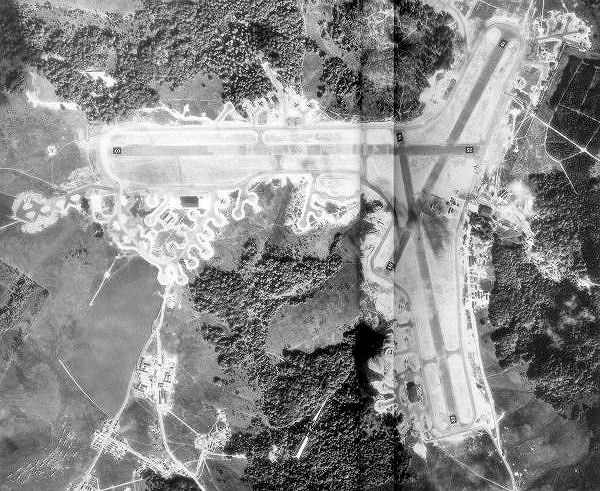 Aerial photograph of Stoney Cross Airfield, England. Note : this version is rotated to place North at top.